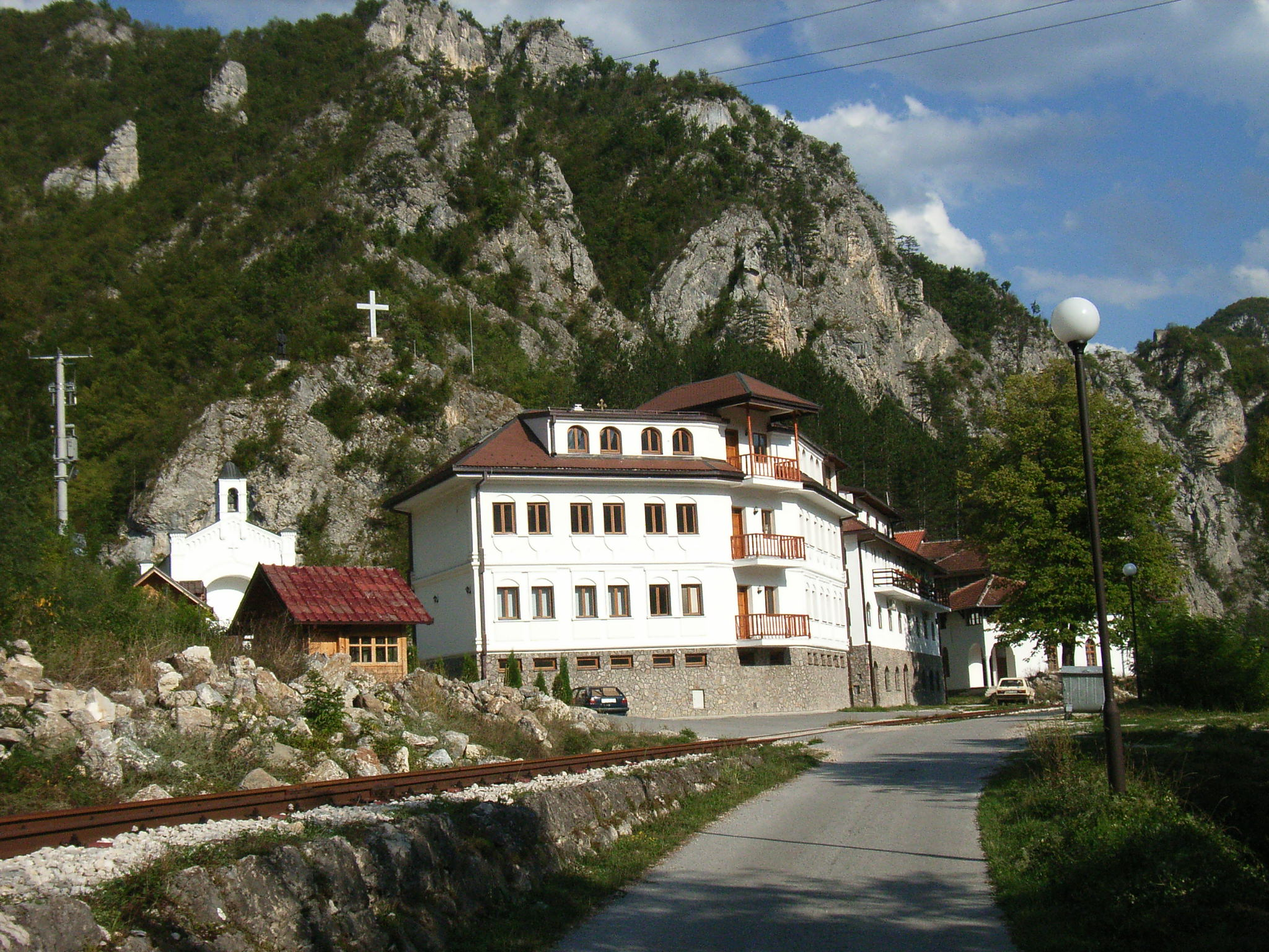 Bosnia, Dobrun Monastery in the Rzav valley east of Višegrad.